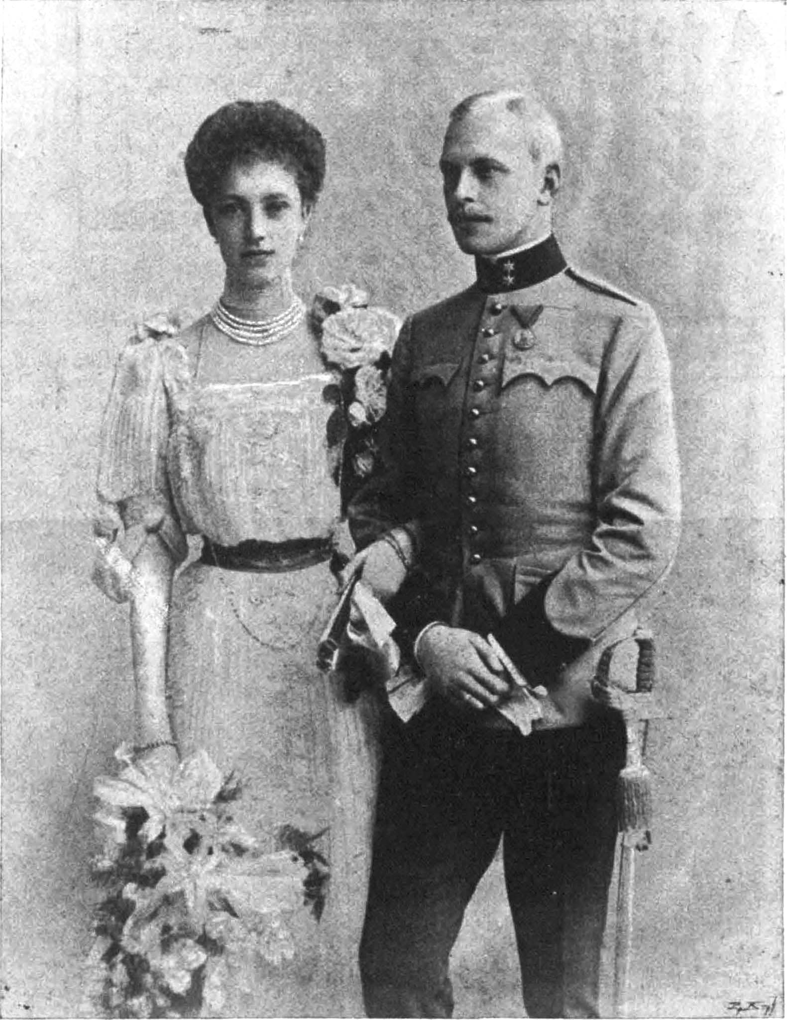 Archduchess Elisabeth Marie of Austria and Prince Otto zu Windisch-Graetz on the announcement of their wedding in January 1902.